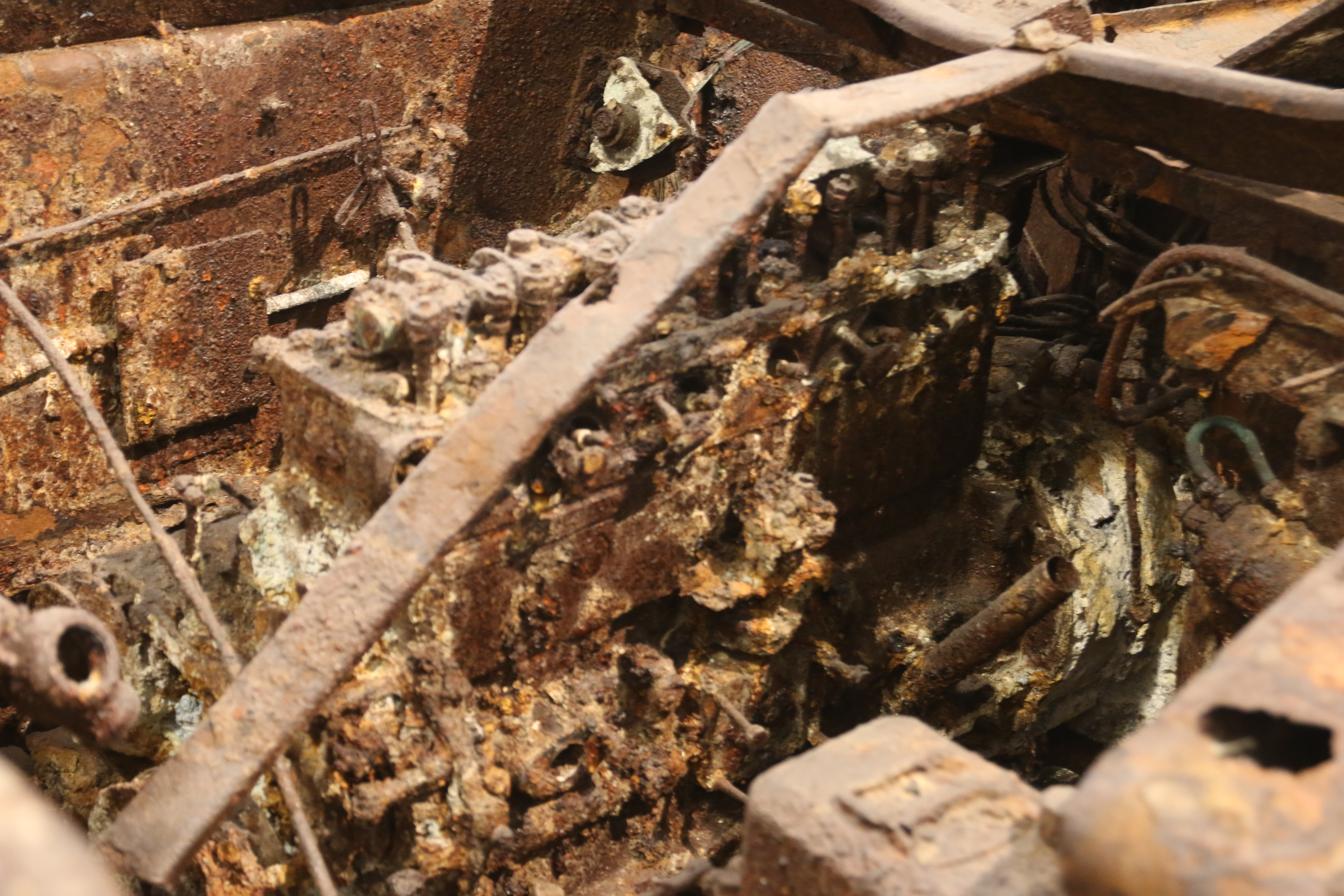 It is not permitted to use this file in the English language Wikipedia.